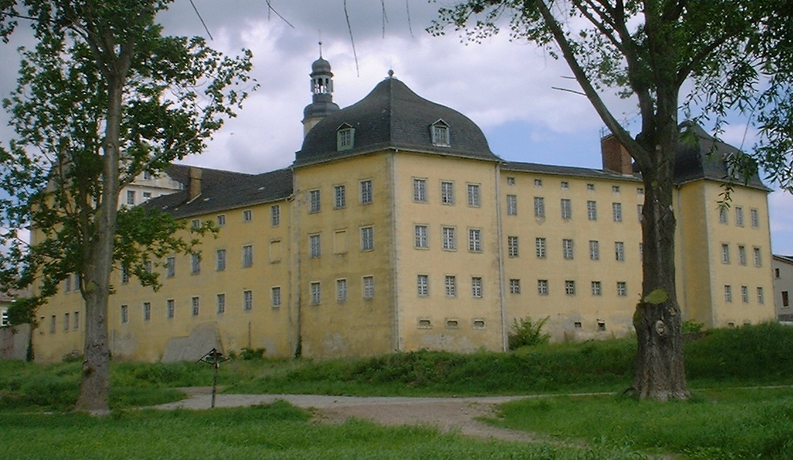 Castle in Coswig in Saxony-Anhalt, Germany